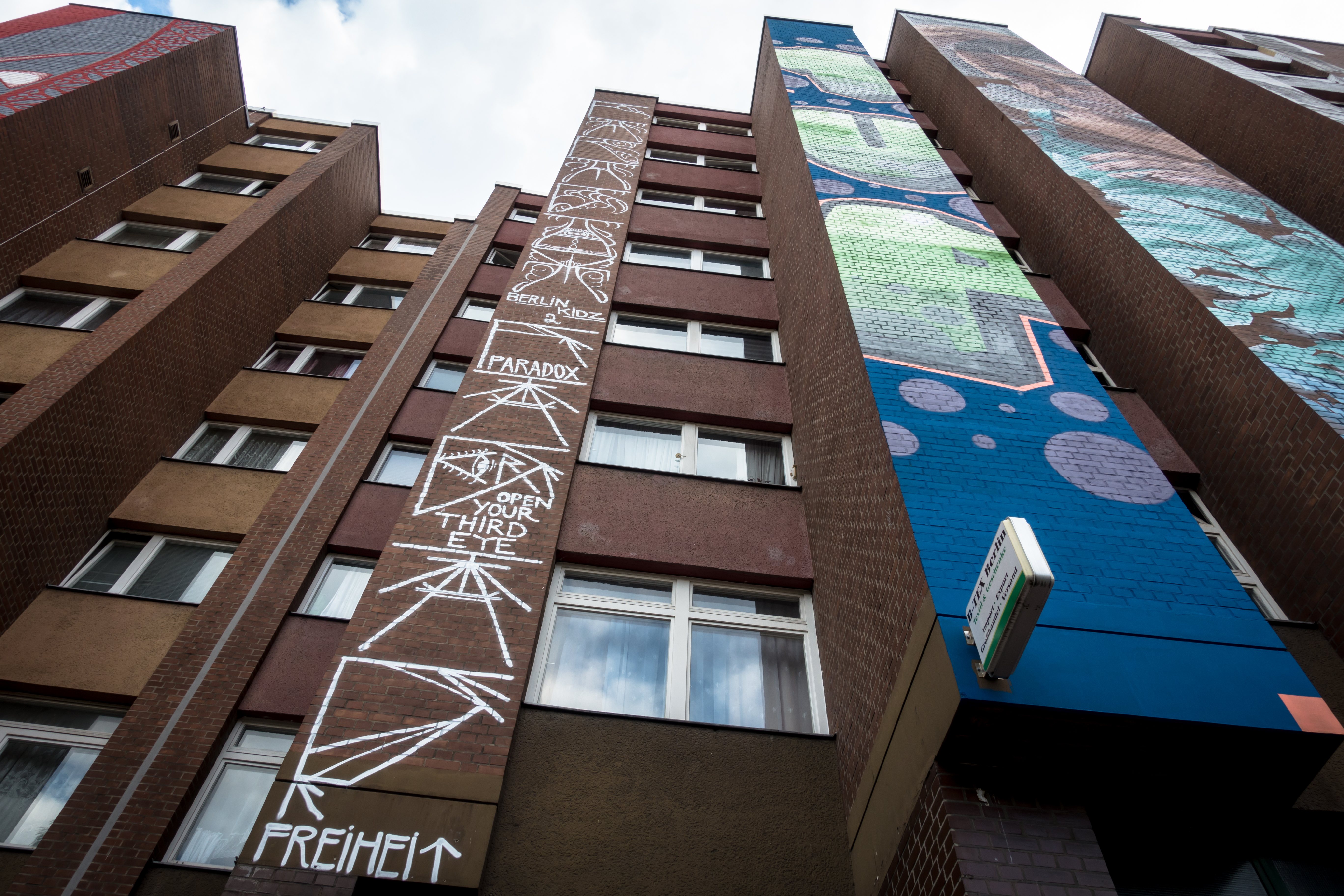 A graffiti of Berlin base groupe 'Berlin Kidz' (next to a graffiti by '1up')